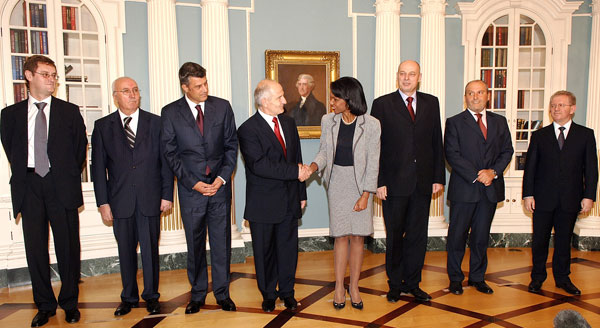 Treaty Room Washington, DC July 23, 2007 Secretary Rice meets with Members of the Kosovo Unity Team. From left to right: Blerim Shala, Coordinator for Working Groups; Kolë Berisha, President of Kosovo Assembly; Hashim Thaçi, President, Democratic Party of Kosovo; President Sejdiu; Secretary Rice; Prime Minister Çeku; Veton Surroi, President, ORA Party; Skënder Hyseni, Spokesman.